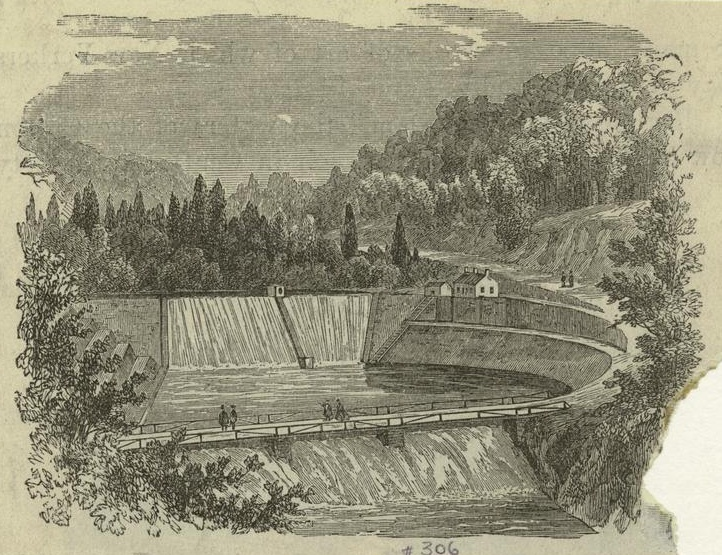 Engraving from 1872 showing the Old Croton, whose site is now under the waters of the New Croton Reservoir.